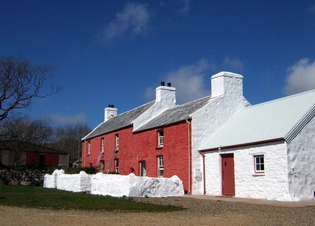 Trehilyn This old farm was the subject of a recent TV series documenting its restoration. It was acquired in a state of dilapidation but its many traditional features have been preserved or reconstructed as authentically as possible. The result is a perfect example of the sort of 'typical' Pembrokeshire farmhouse that is rapidly disappearing.